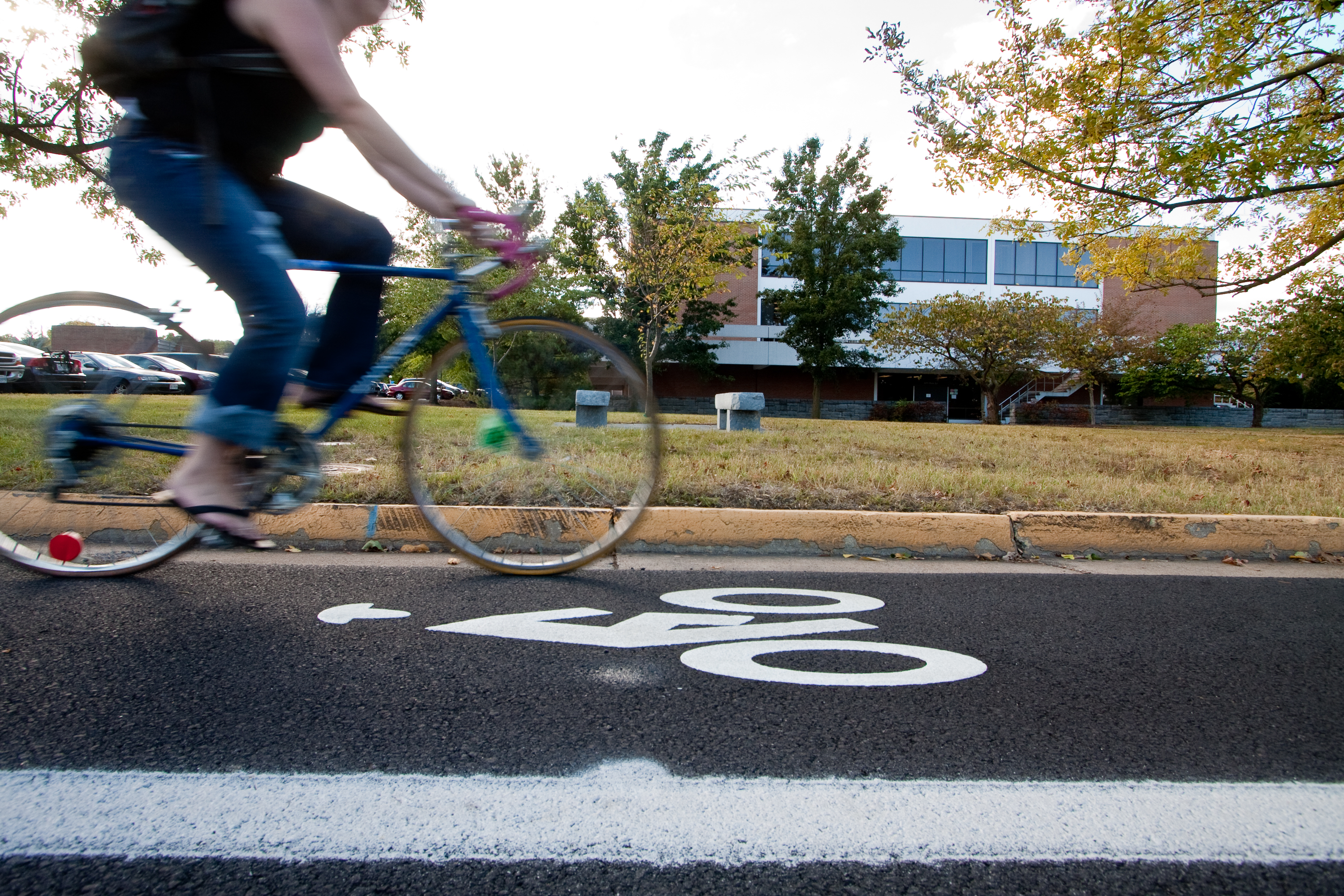 The Park Rd. bicycle lane that passed through EMU's campus